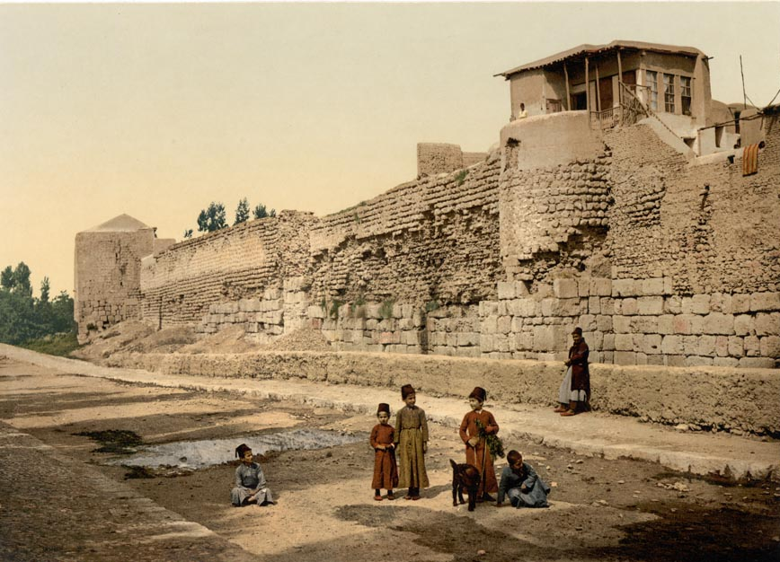 Wall over which St. Paul escaped Damascus Holy Land (i.e. Syria)